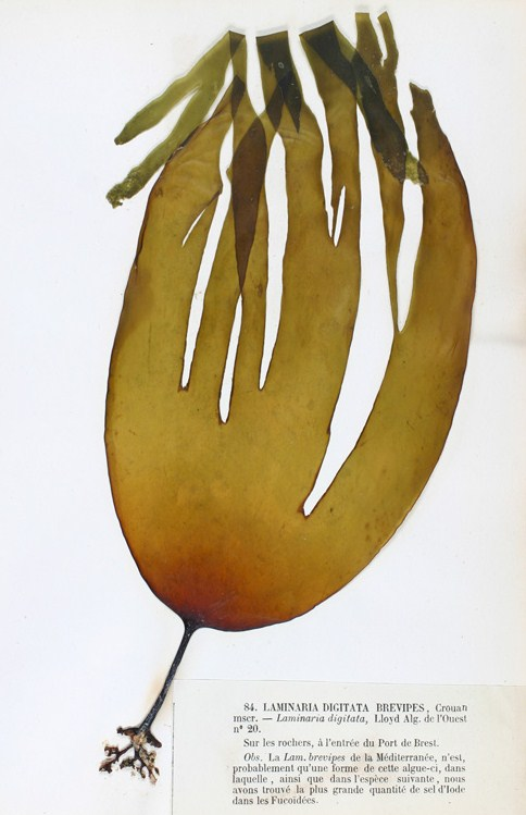 « Laminaria digitata brevipes » = Laminaria digitata (Oarweed)